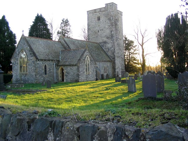 Eglwys Sant Pedr Llanybydder (St. Peter's Church) It is unknown just how long there has been a church on the site but in 1363 it was part of Carmarthen Priory, although it is thought that the tower may be as early as 12th or 13th Century.